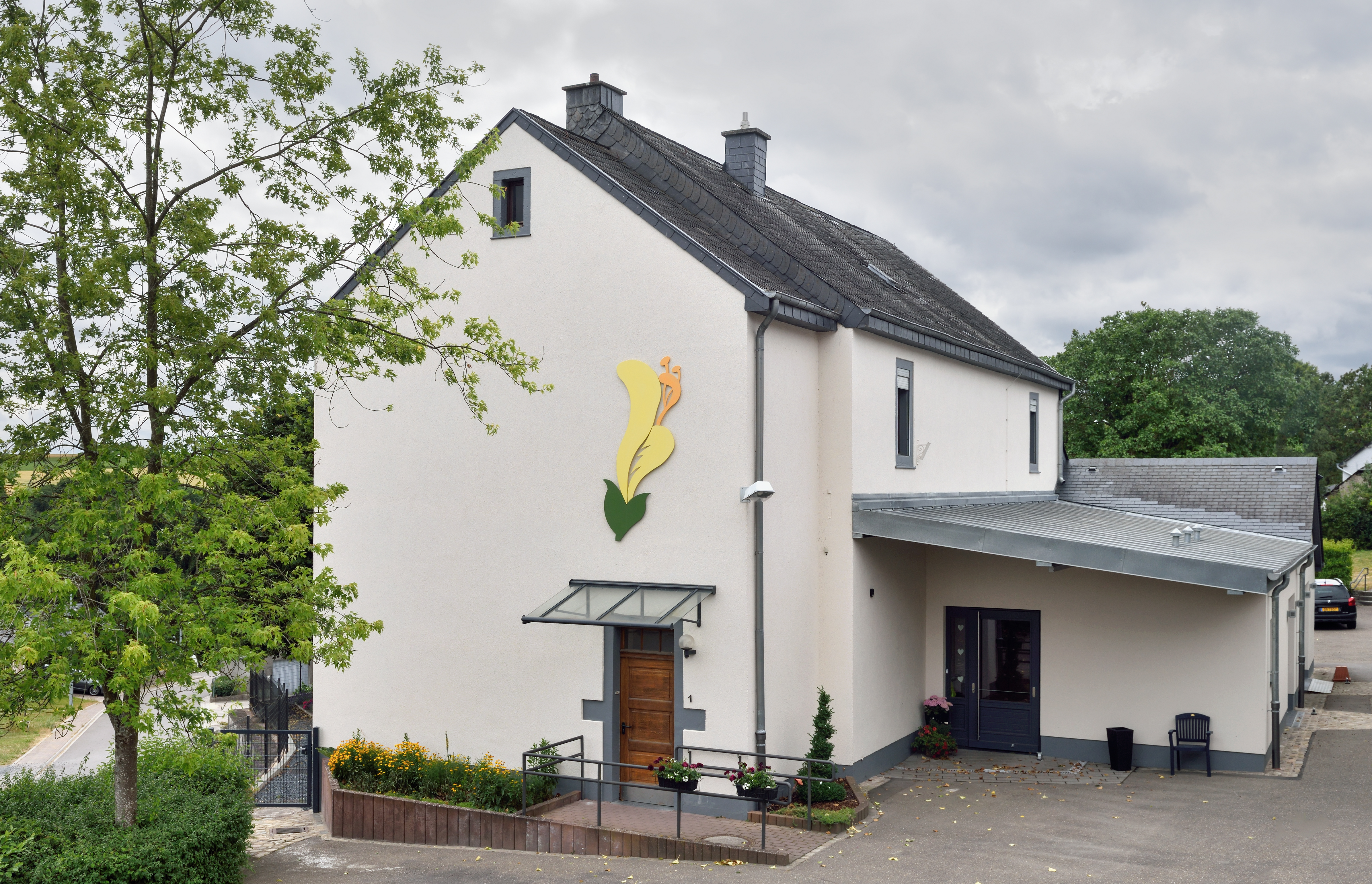 Home Gënzebléi (genista flower) for Alzheimer patients at 1, Daehlerbaach in Dahl, commune of Goesdorf, Luxembourg.